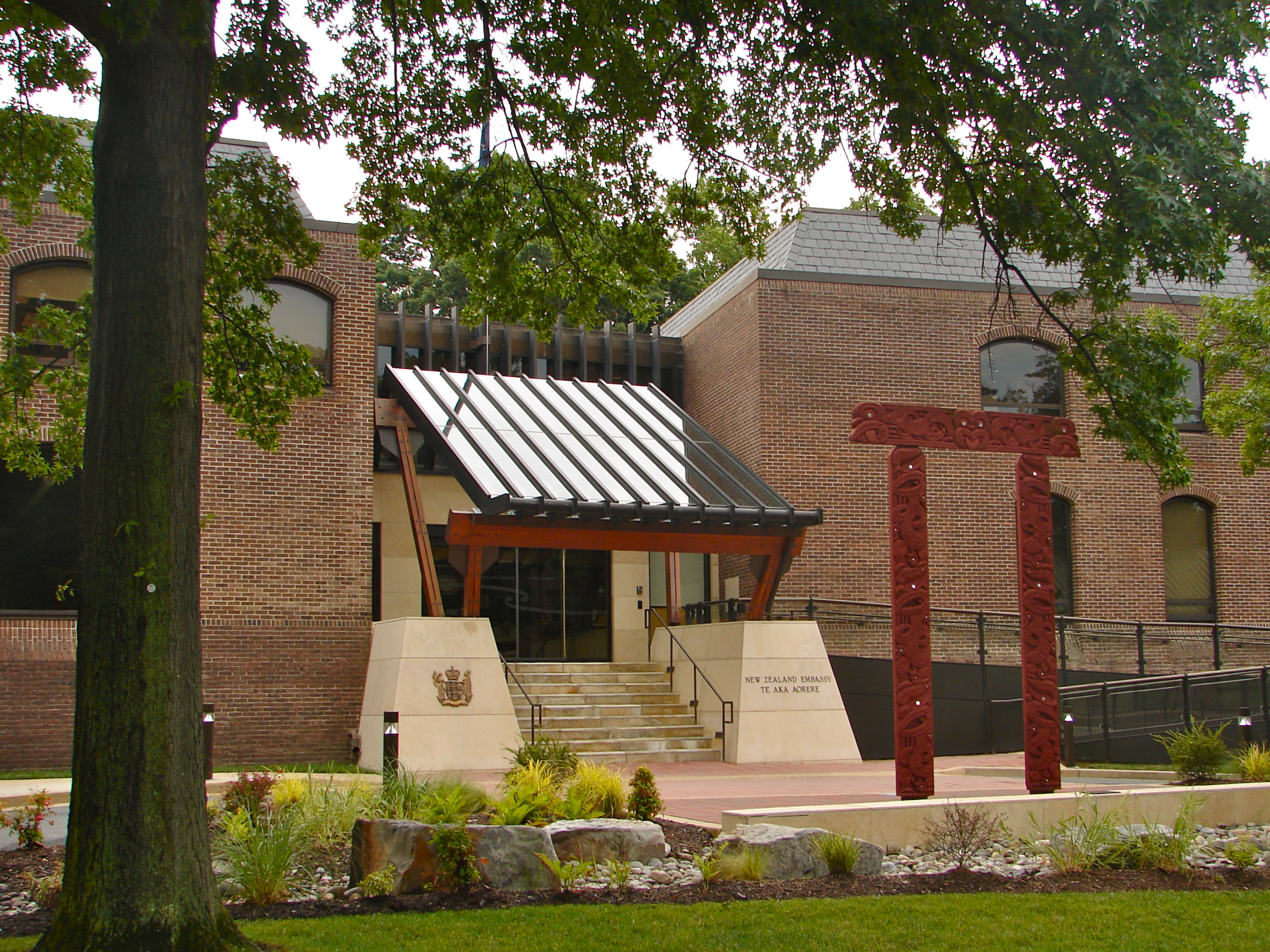 New Zealand Embassy in Washington, DC - right behind the British Embassy. Nice Maori artwork in front.